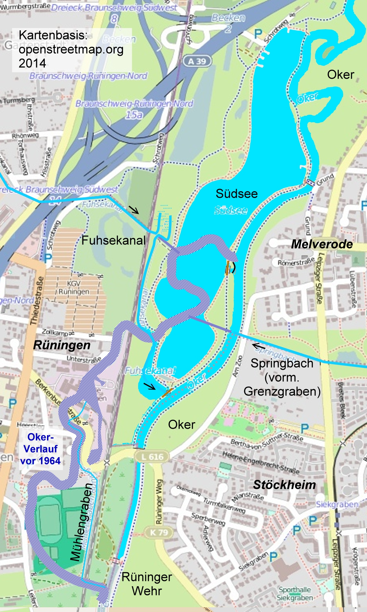 Map of Suedsee with historical flow of Oker